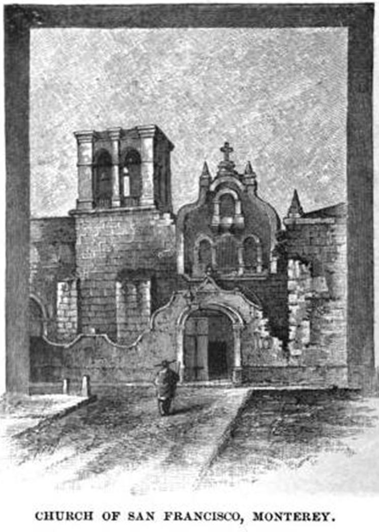 Extinct Franciscan Convent of San Andres Monterrey, Mexico 1887. From the book: About Mexico: Past and Present by Hannah More Johnson Published by Presbyterian board of publication, 1887.